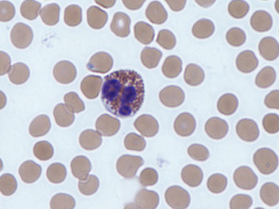 An eosinophil, a type of white blood cell (Giemsa stain)